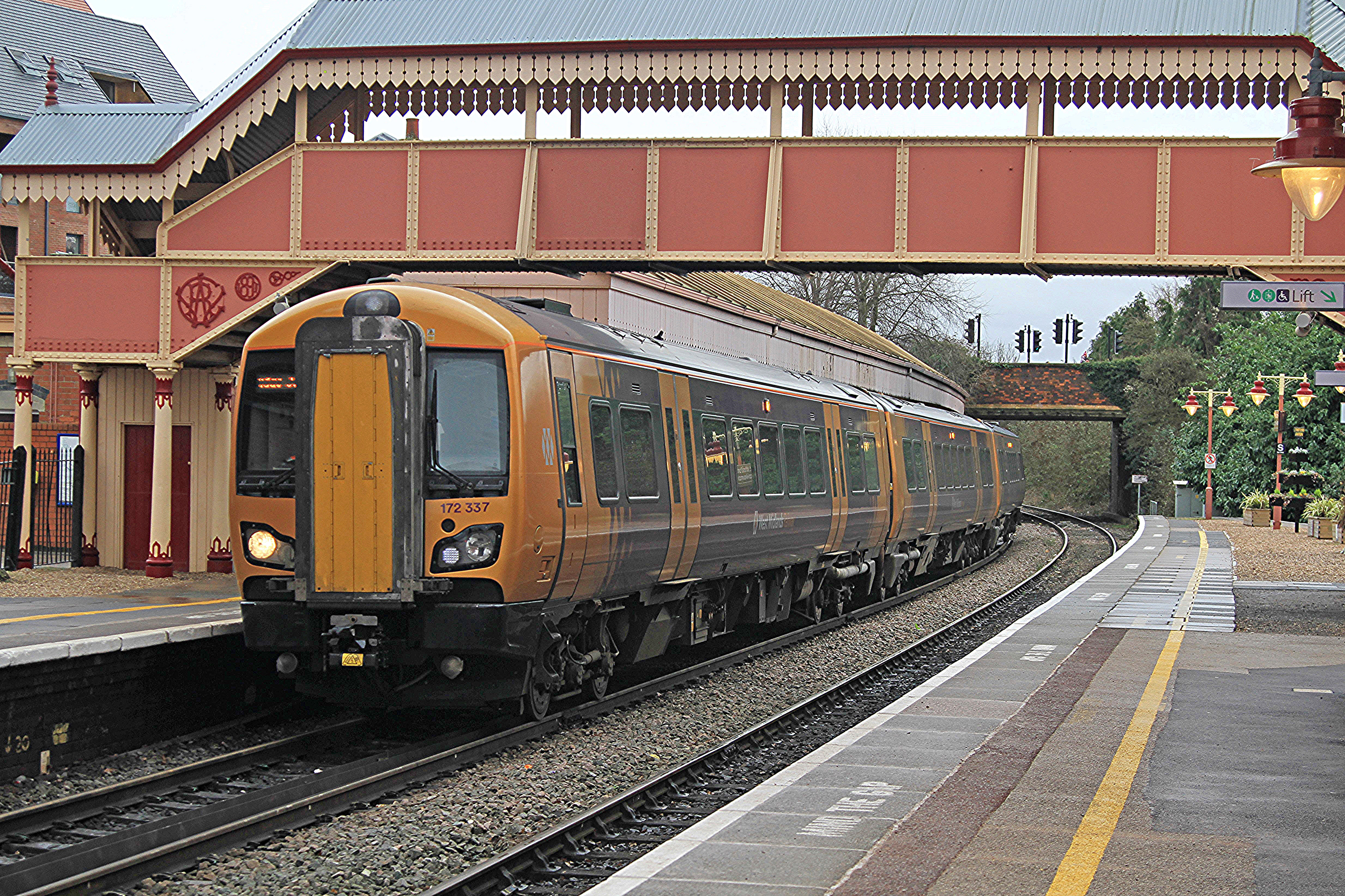 172-337 Stratford upon Avon 25-01-2019 Class 172 172-337 West Midlands Trains Stratford Upon Avon 25-01-2019